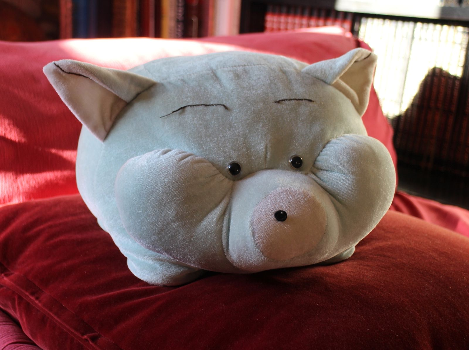 New version of Pig-plush with Home made Plush